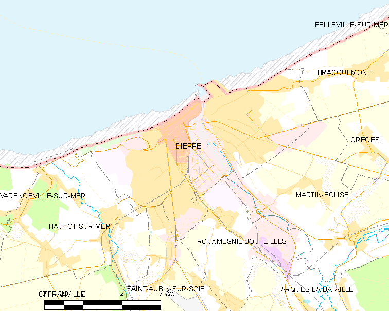 Map of French municipality Dieppe